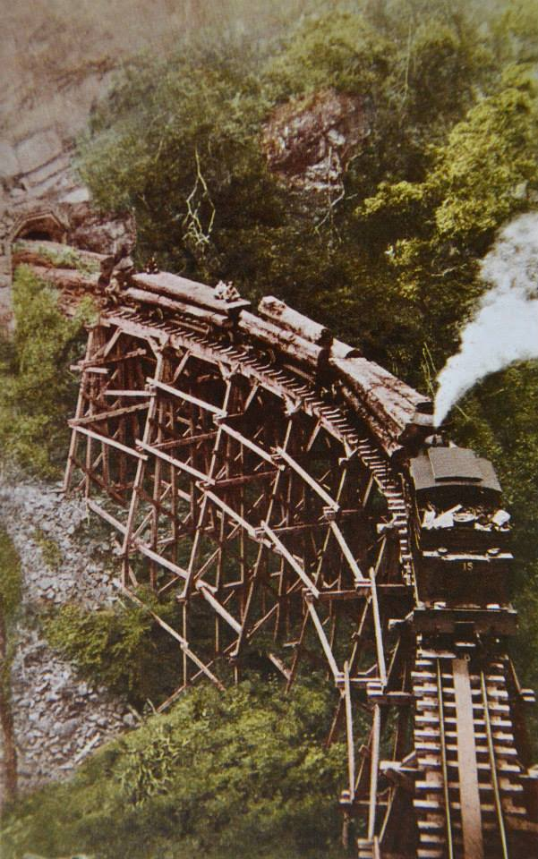 Alishan Forestry Train and Railway during the Japanese Rule